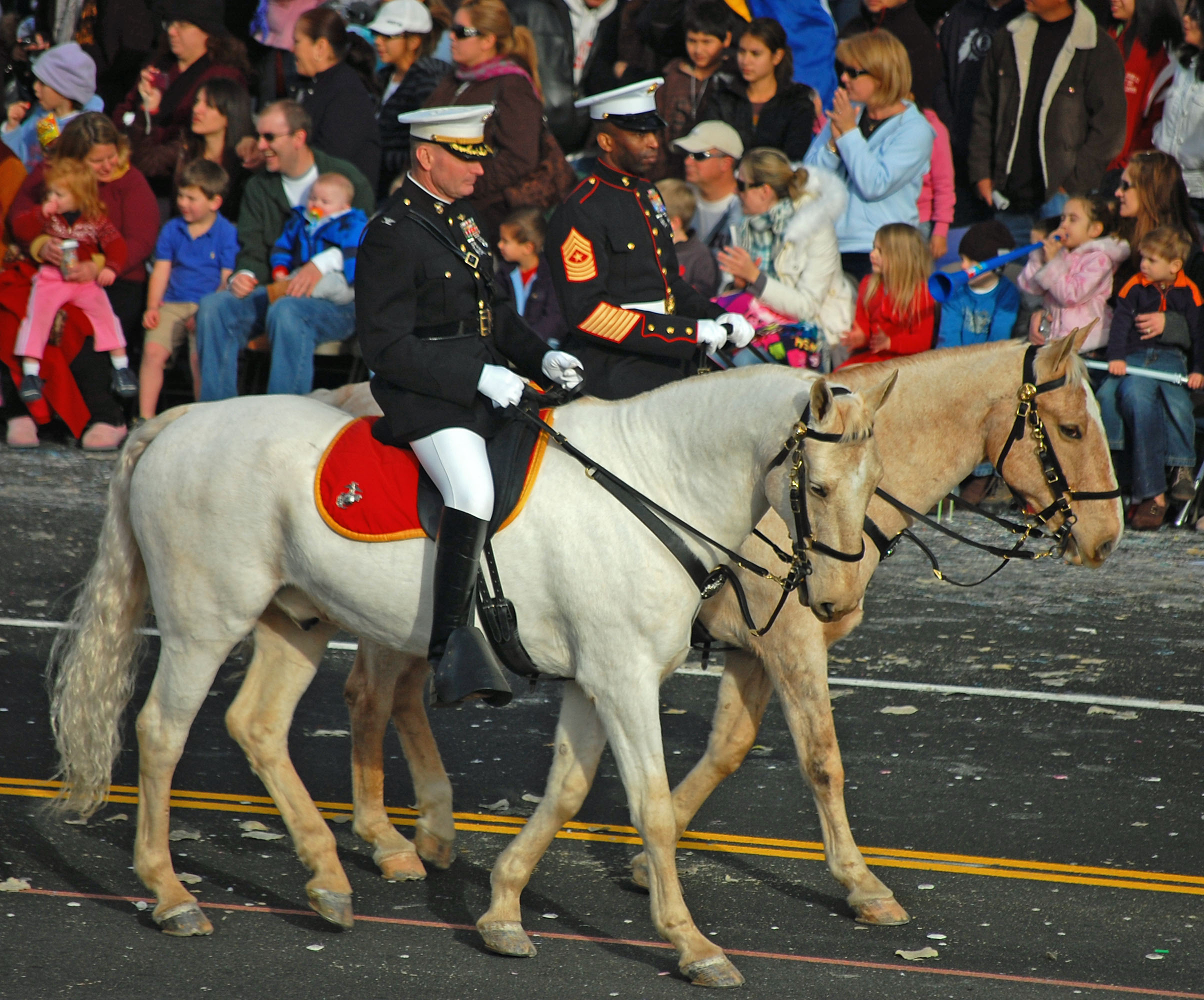 The Mounted Color Guard members are active duty Marines who, in their time off, train these Palomino mustangs to perform precise colour guard movements (similar to the trooping of the colour).